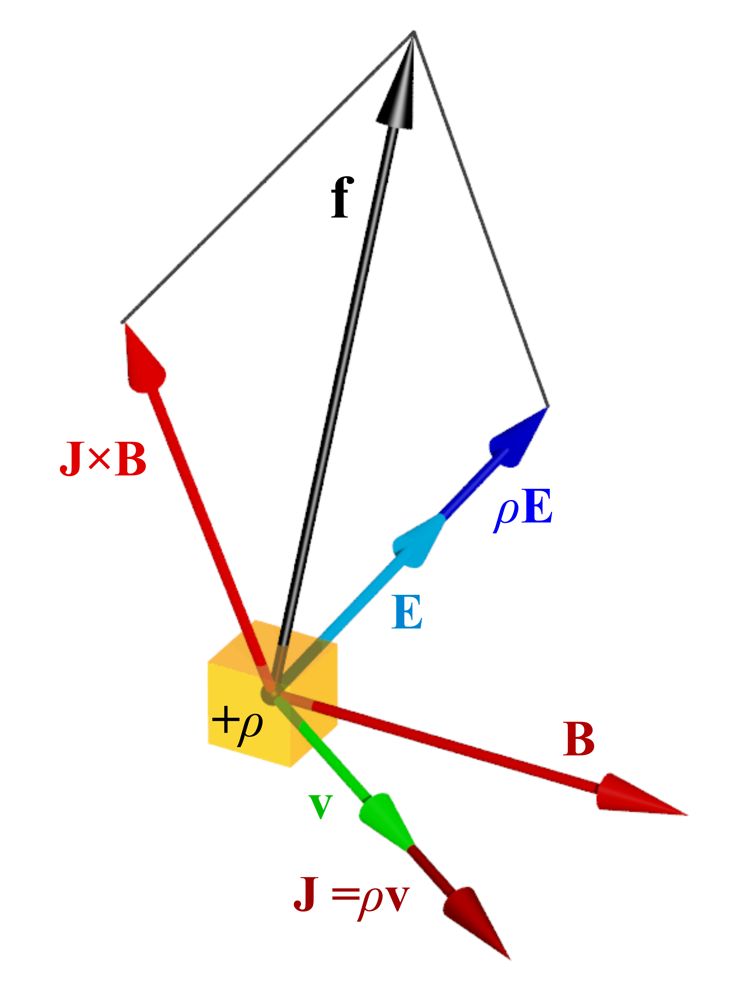 Diagram for E, J, B fields